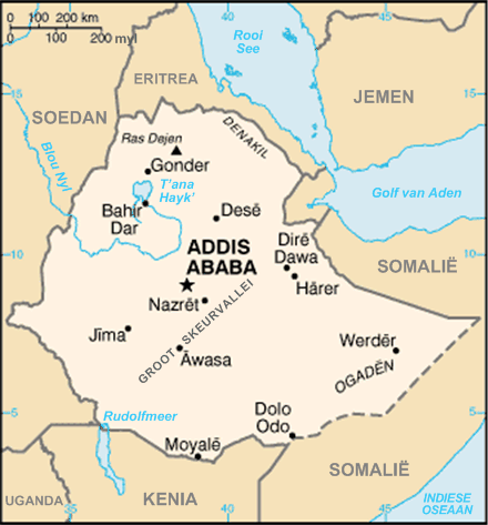 An Afrikaans map of Ethiopia.